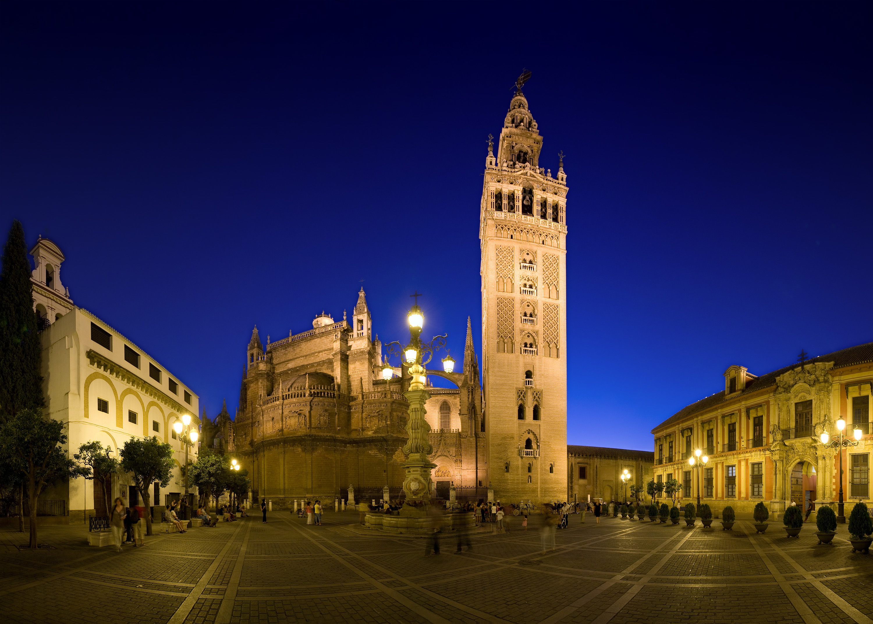 An ultrawide angle view of the Plaza Virgen de los Reyes looking west towards the Cathedral of Seville and the Giralda. On the left is the Convento de la Encarnacion and on the right is the Palacio Arzobispal (the Archbishop's Palace). This is a 4 segment panorama taken with a Canon 5D and 17-40mm f/4L lens at 17mm and f/8.